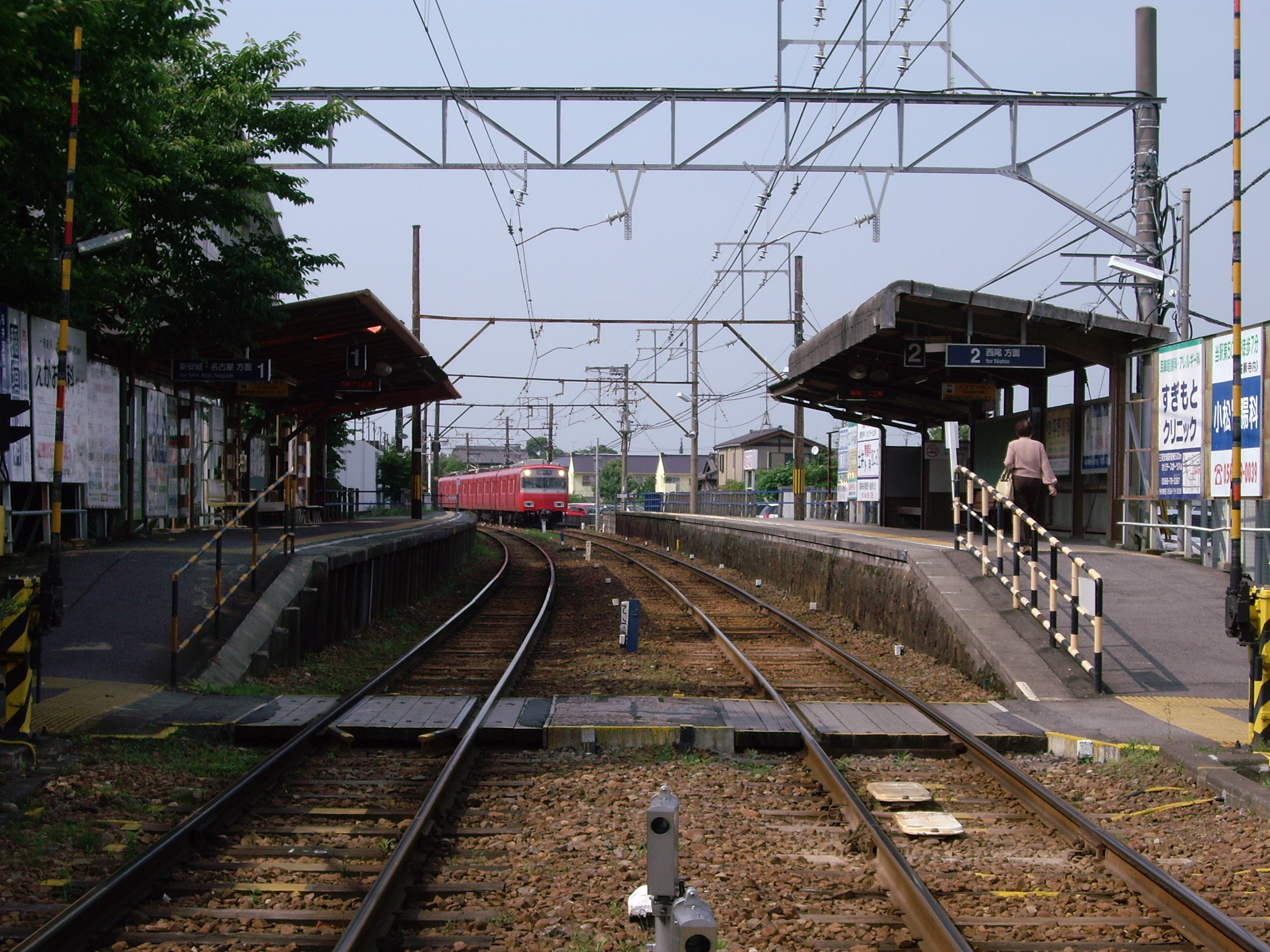 Hekikai-Sakurai Station platform.